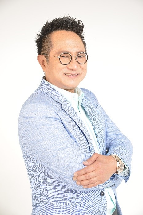 public figure: Pramarn Laungwattanawanich